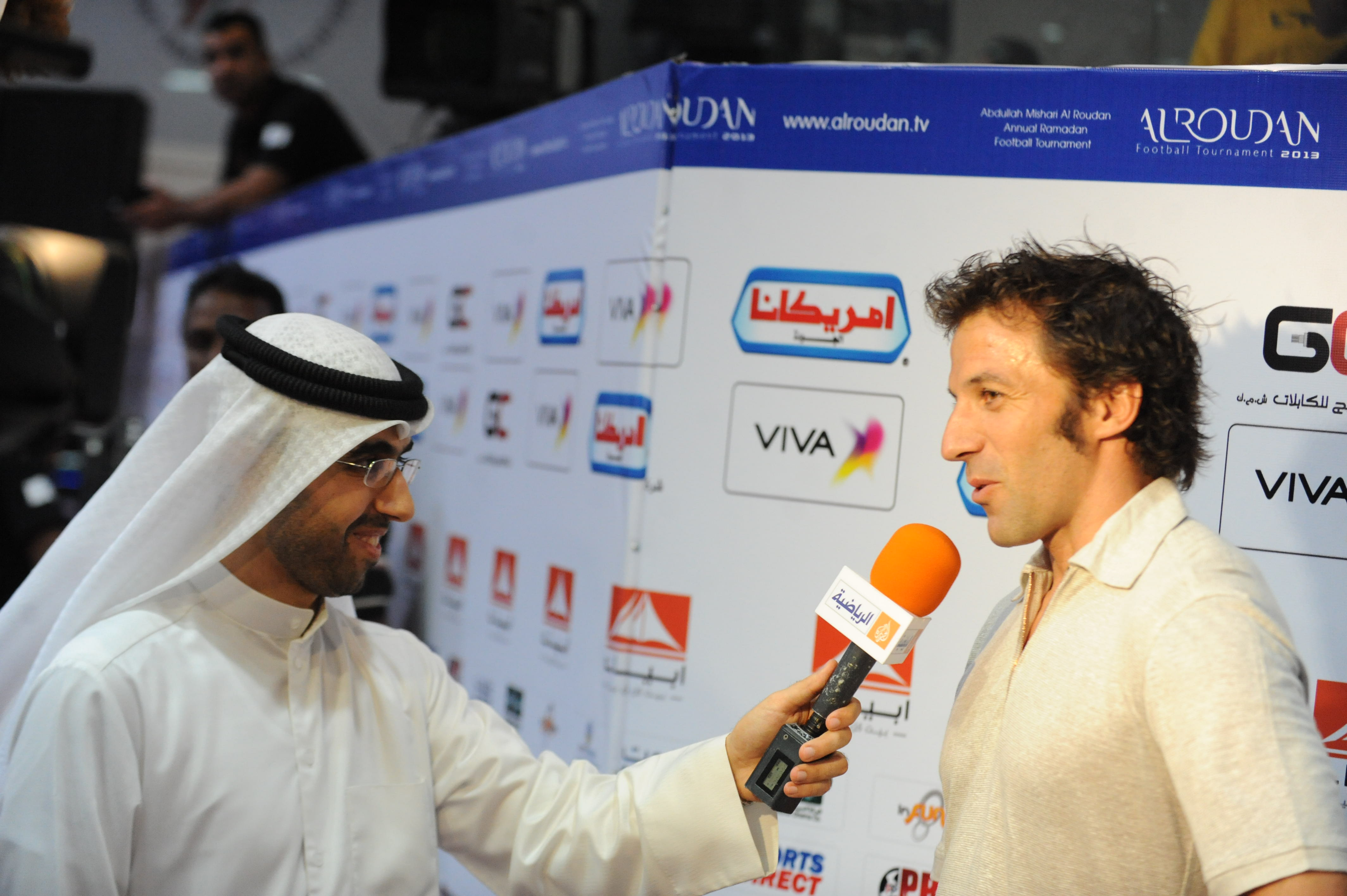 علي احمد مراسل الجزيرة الرياضية يجري لقاء مع ديل بييرو